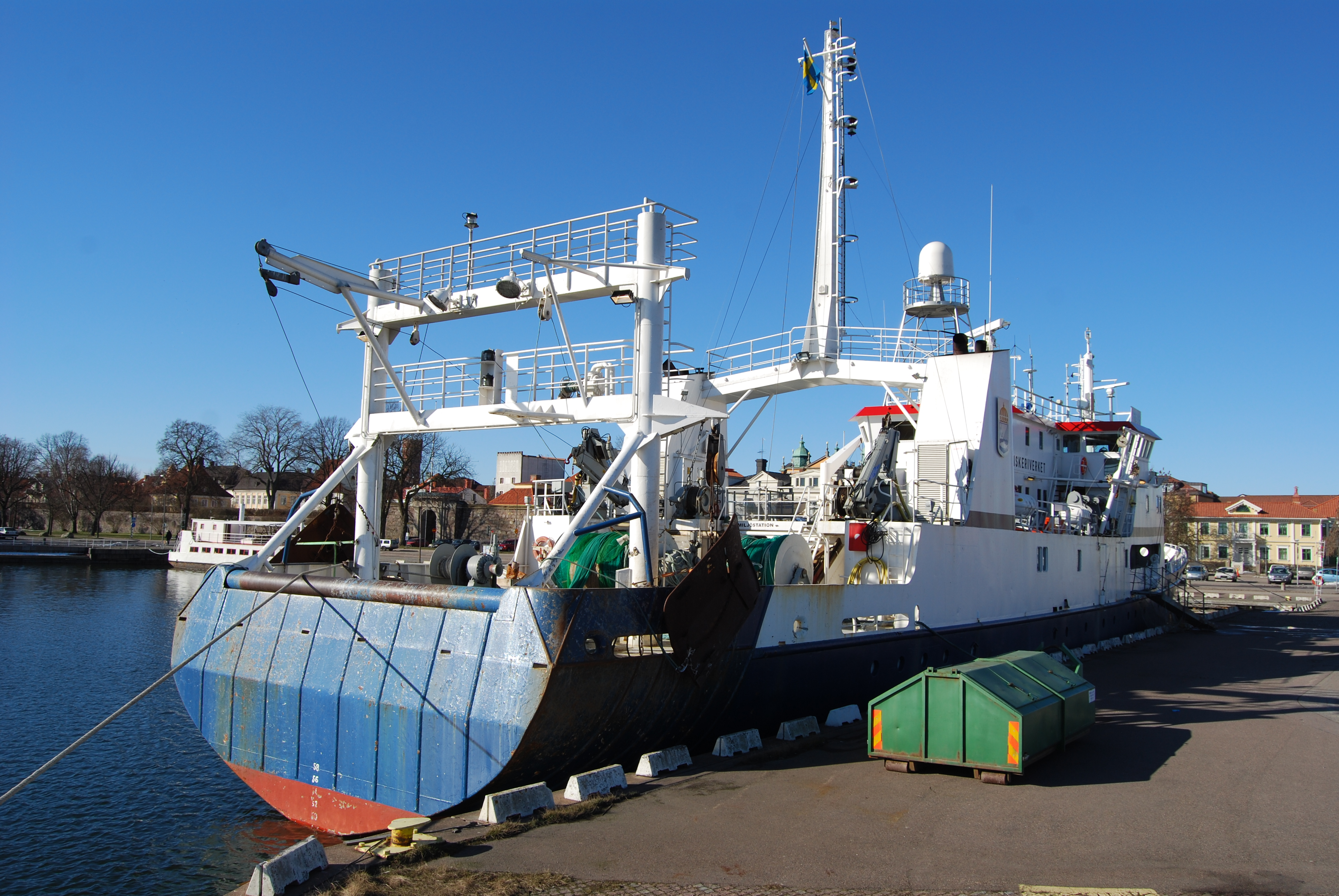 Swedish fishing research vessel U/F Argos i port in Kalmar.